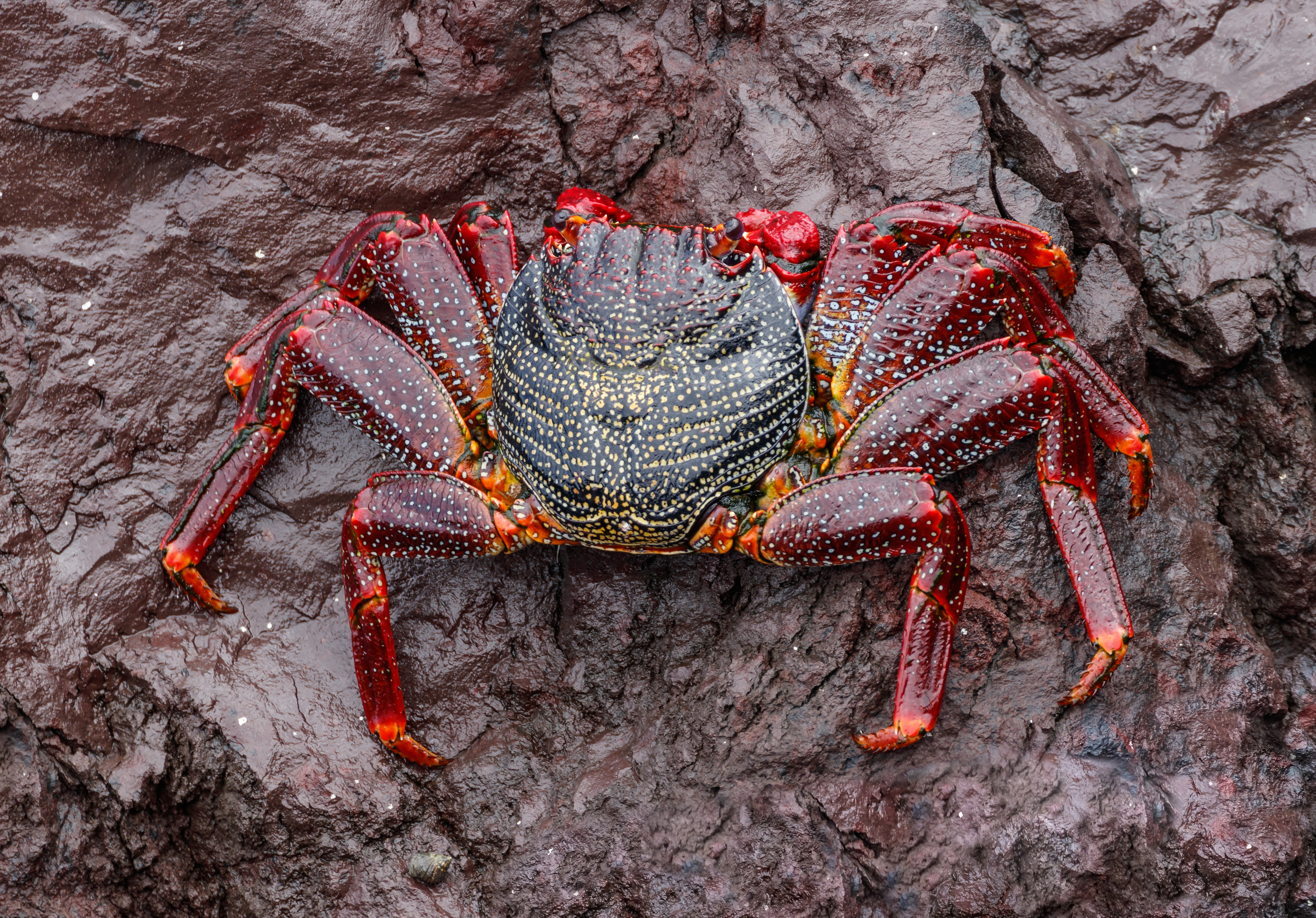 Grapsus adscensionis Osbeck, 1765, Garachico, Tenerife, Canary Islands, Spain.